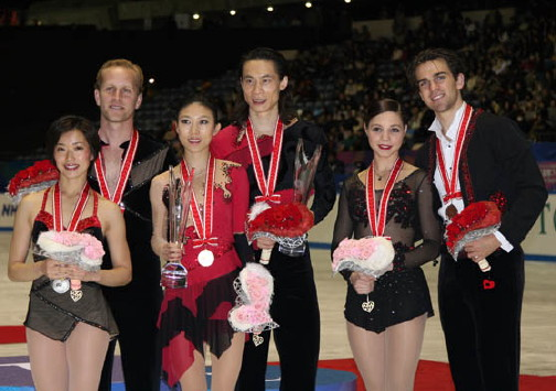 2008 NHK Trophy pairs podium. Rena Inoue / John Baldwin (2), Pang Qing / Tong Jian (1), Jessica Dubé / Bryce Davison (3)